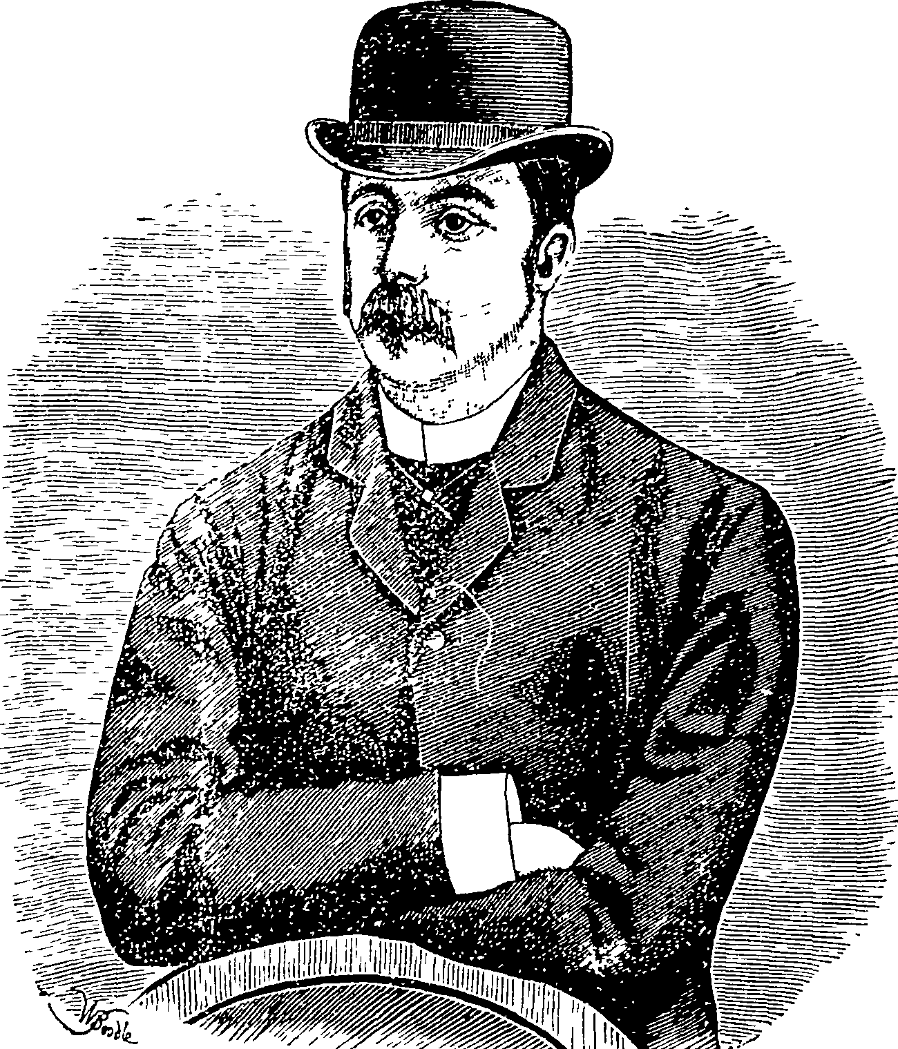 THOMAS HALL (Evening Post, 09 October 1886)